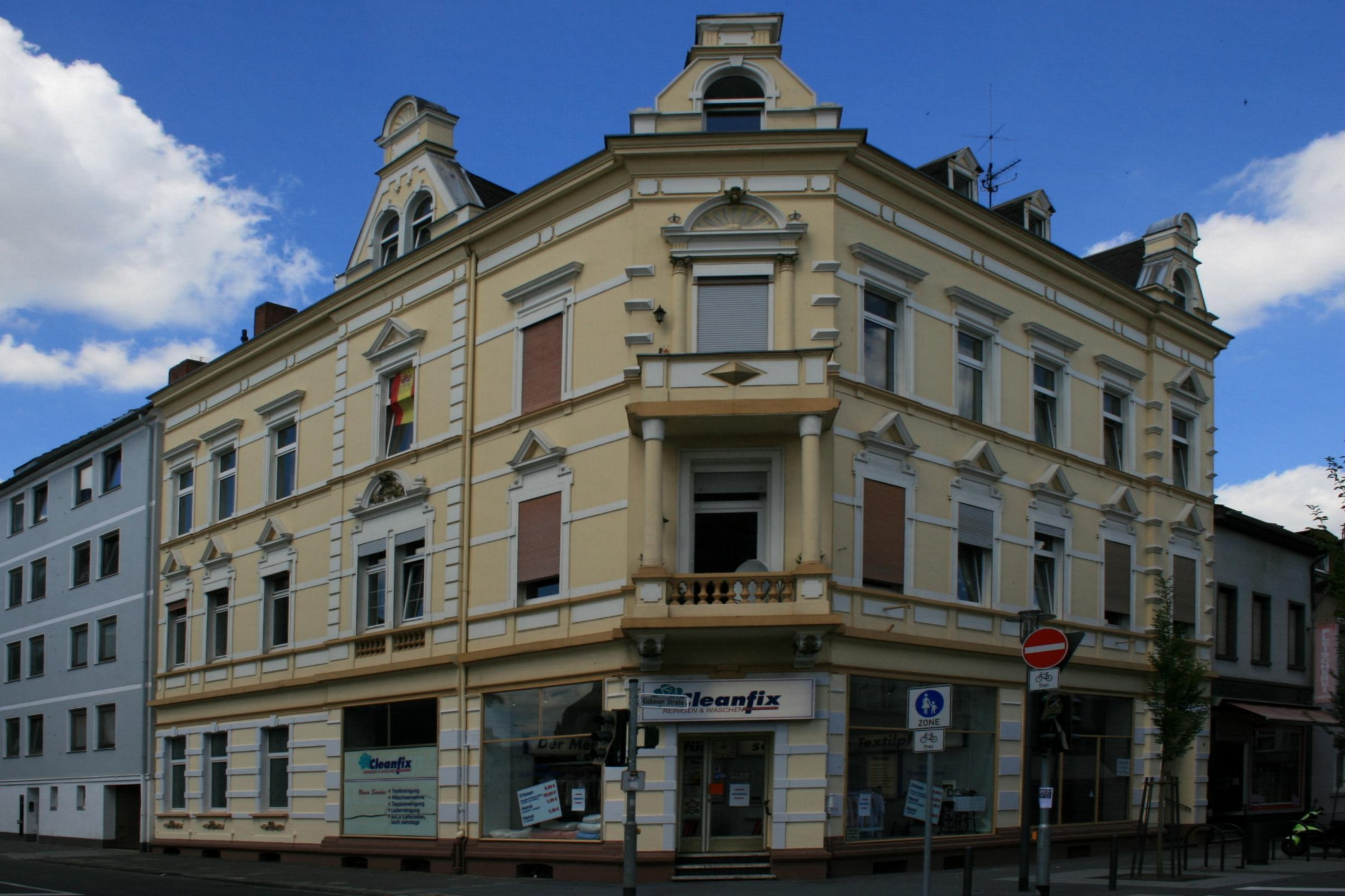 Cultural heritage monument No. E 020 in Mönchengladbach